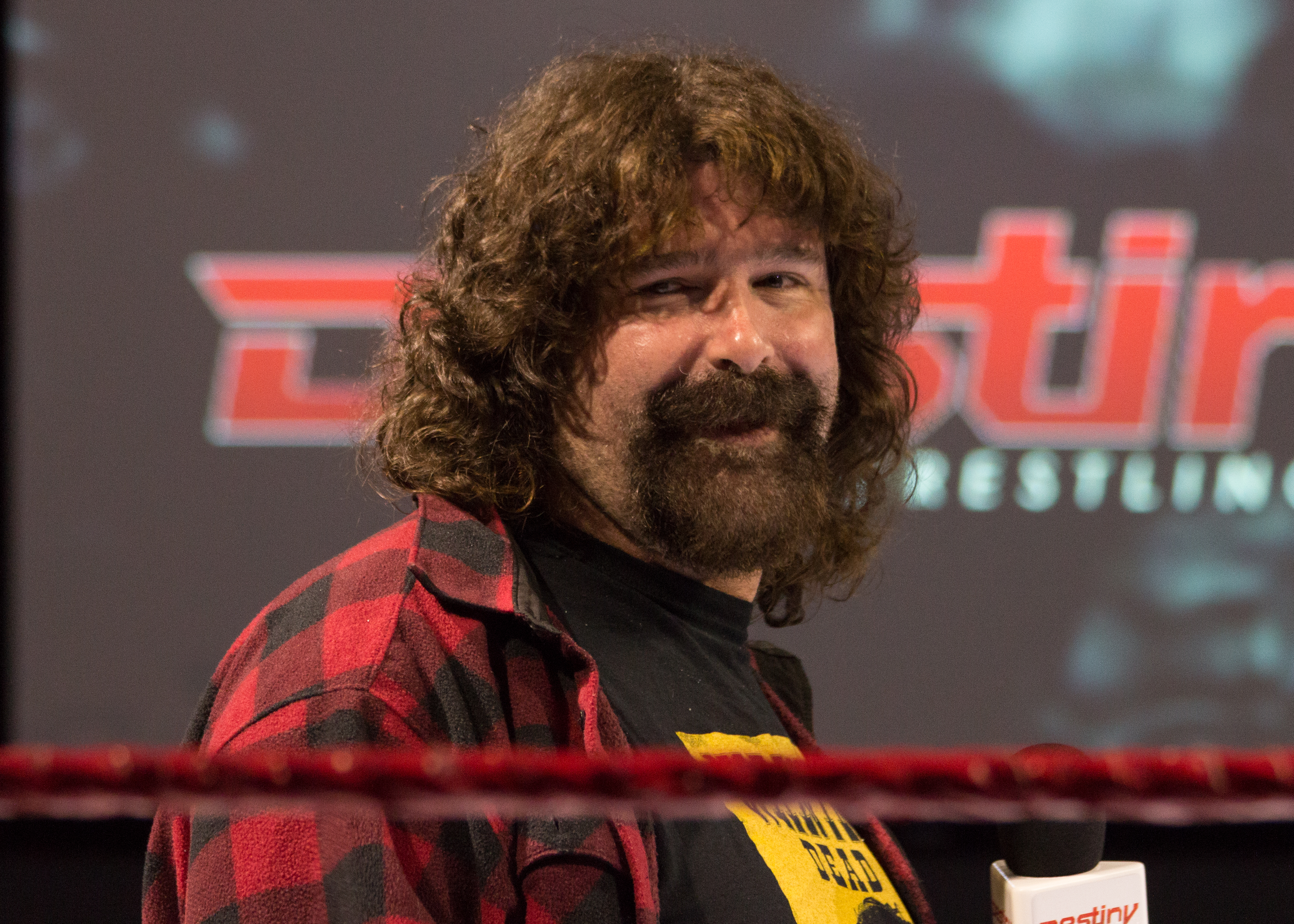 Mick Foley at a Destiny Wrestling show in Mississauga, ON